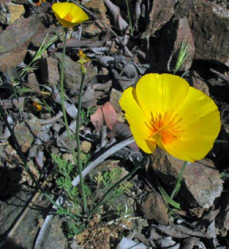 Eschscholzia caespitosa — tufted poppy, or collarless California poppy; flower close-up. On side of Yerba Buena Road in Circle X Ranch Park, in the western Santa Monica Mountains, within the Santa Monica Mountains National Recreation Area, Southern California.